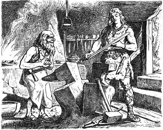 "Sigurd prüft das schwert Gram" (1901) by Johannes Gehrts.